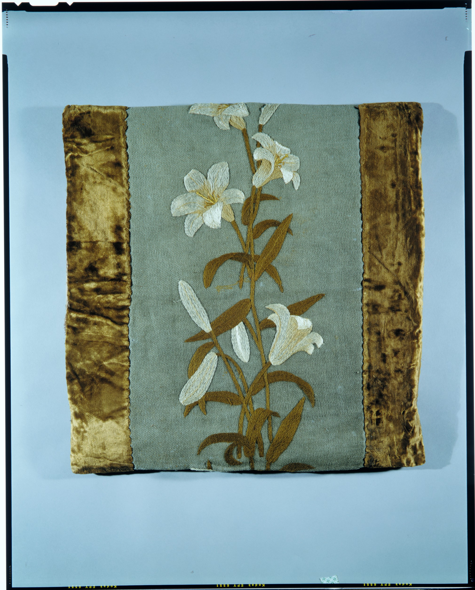 American; Pillow cover; Textiles